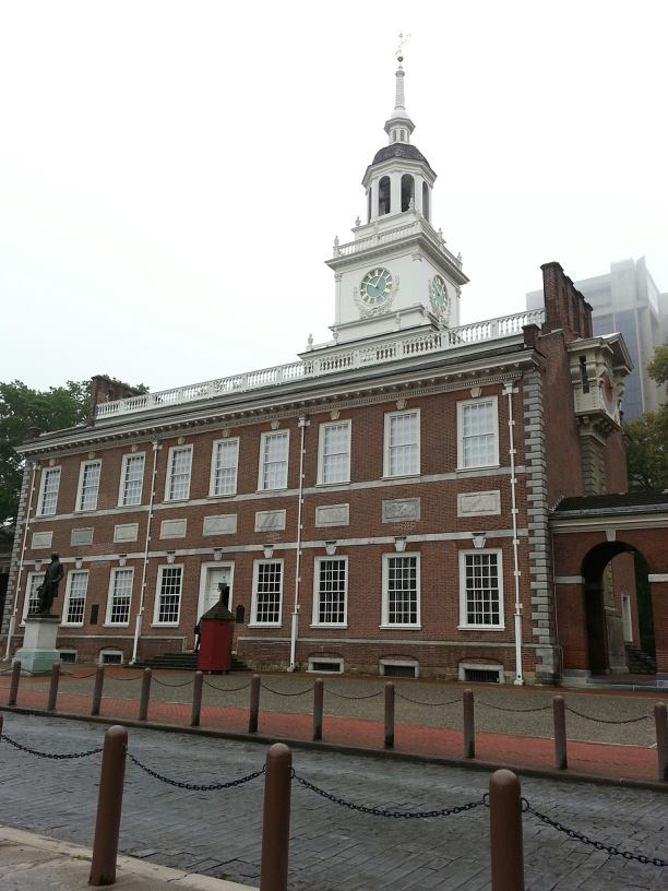 North Side